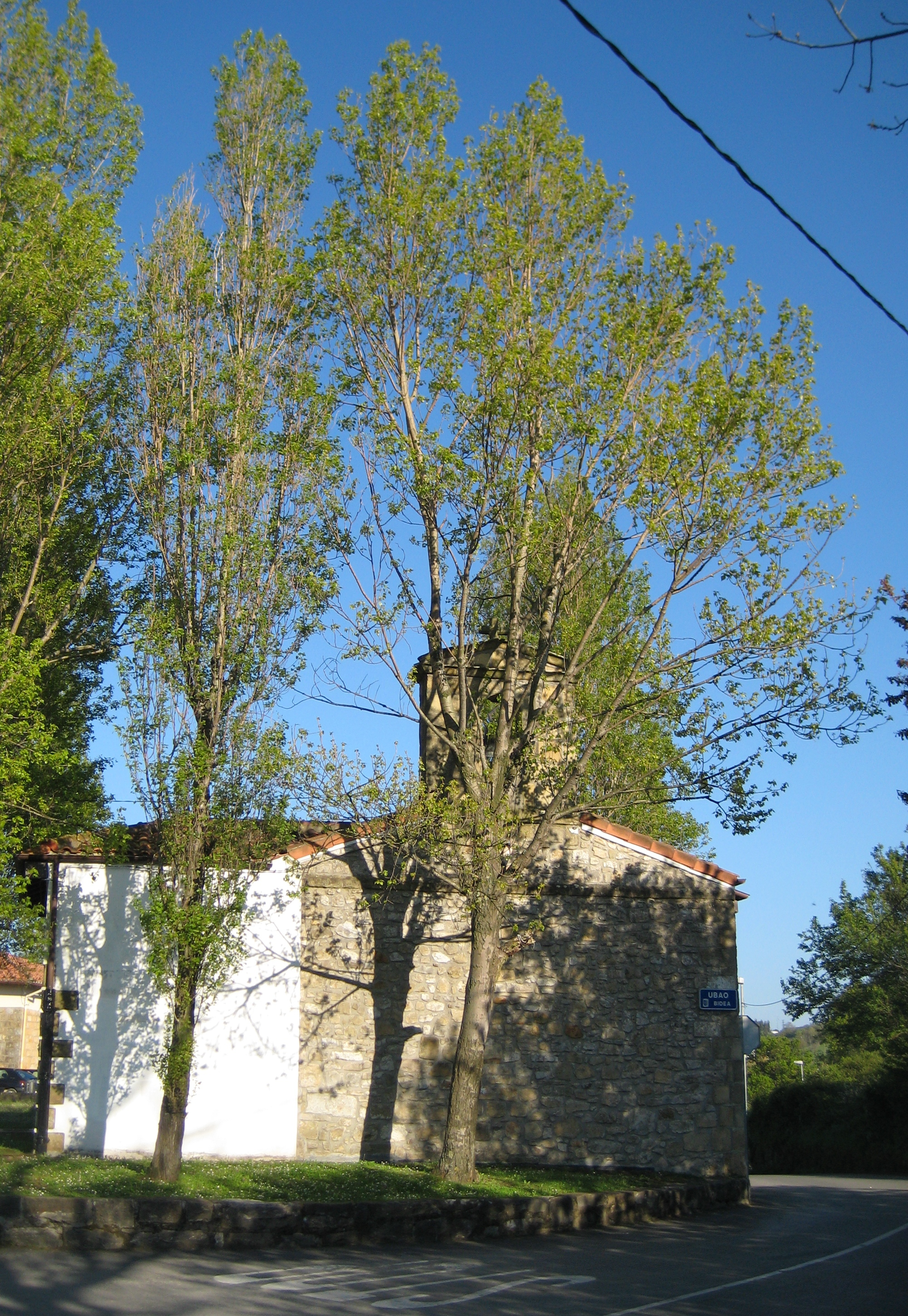 Saint Anne's hermit in Berango, Biscay.